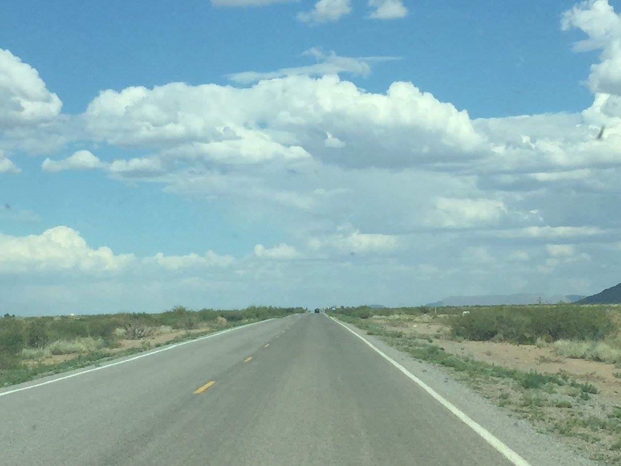 NM 418 heading eastbound towards Deming near I-10 Exit 62 in Gage. NM 418 is pre-1956 US 70 and US 80.